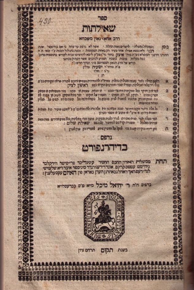 Sheiltot of Rabbi AvChai Gaon